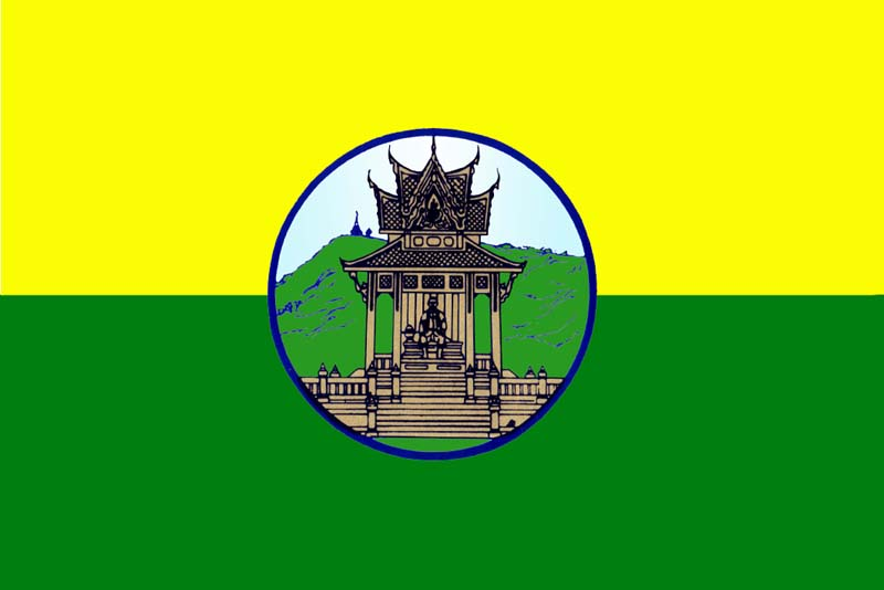 Flag of Uthai Thani Province